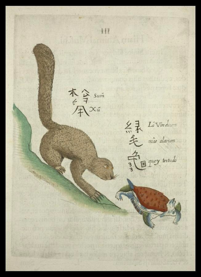 One of the earliest natural history books about China, by the Polish Jesuit Michael Boym. (Obviously includes some non-Chinese {and non-floral} species). This page, unusually, shows a squirrel (松鼠, Songshu; Sum Xu in Boym's transcription) chasing a green-haired turtle (綠毛龜, Lü mao gui). Boym said that Chinese domesticate Sum Xu, put silver collars on them, and that they hunt mice. Boym (mistakenly) translates 绿毛龟 as green-winged turtles. In the text he says that these rare creatures are green, and sometimes have blue (or dark green? cæruleas) wings attached to their legs; they move very slowly, but can sometimes jump, making use of their wings.